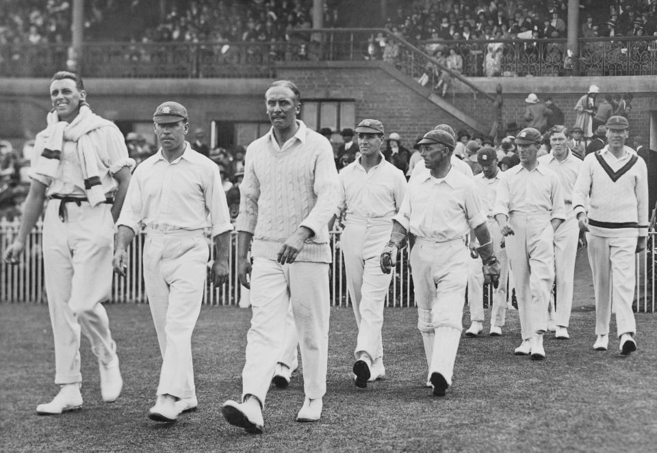 The England captain AER Gilligan leading his team onto the field at the start of the Australian 2nd innings during the 4th Test match between Australia and England at the Melbourne cricket ground, 18th February 1925. England won by an innings and 29 runs. Left-right: Maurice Tate, Patsy Hendren, Arthur Gilligan, Herbert Sutcliffe, Bert Strudwick, William Whysall, Jack Hearne, APF Chapman and Frank Woolley.